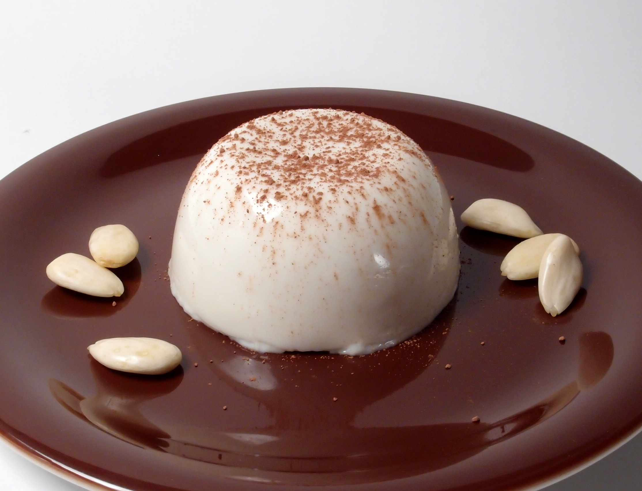 A serving of blanc-manger, sprinkled with cocoa powder and garnished with a few whole almonds. This blanc-manger was made according to a rather purist recipe, containing only almonds, water, milk, sugar and gelatin. This is not English-style, cornflour thickened blancmange, but rather the almond jelly known in the classic French cuisine.